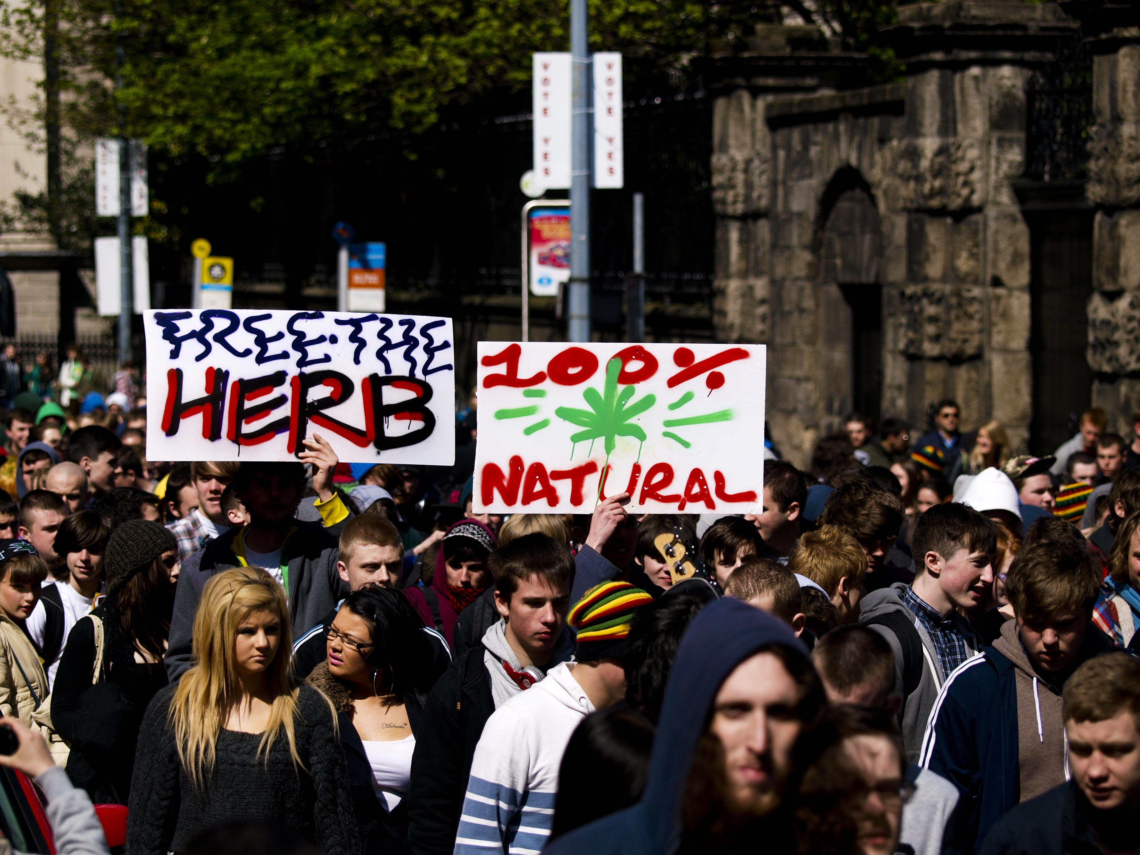 Legalise Cannabis March Dublin Ireland